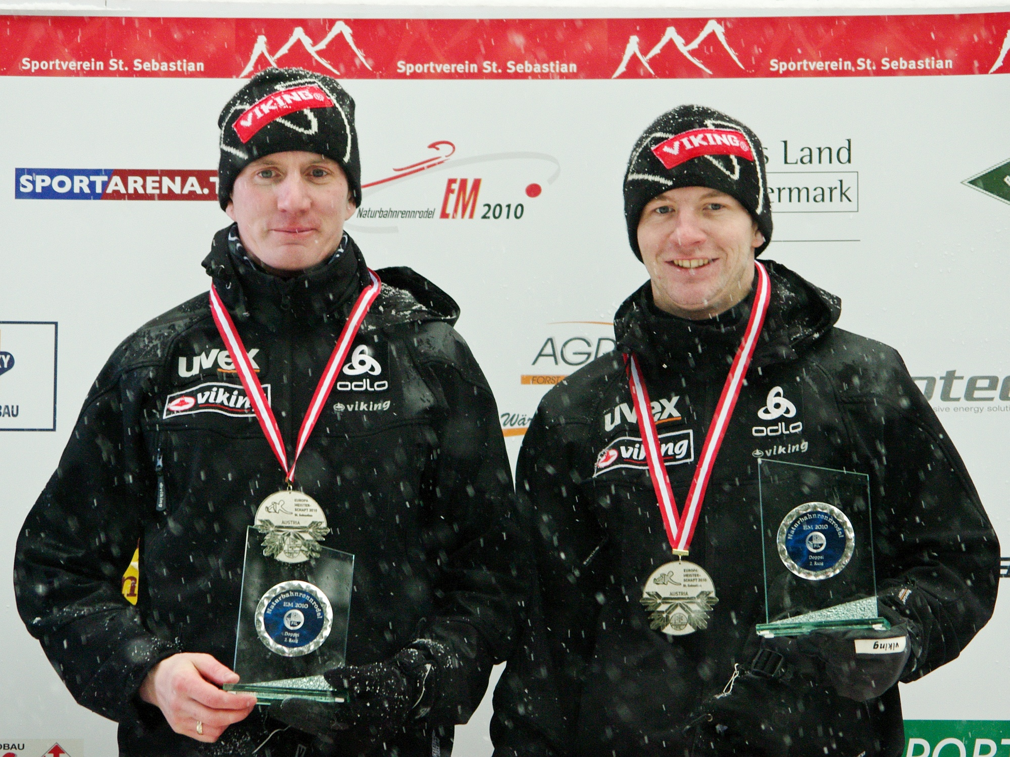 FIL European Luge Natural Track Championships 2010, Prize giving ceremony men's doubles: 2nd place: Andrzej Laszczak (left) and Damian Waniczek (right) (POL).